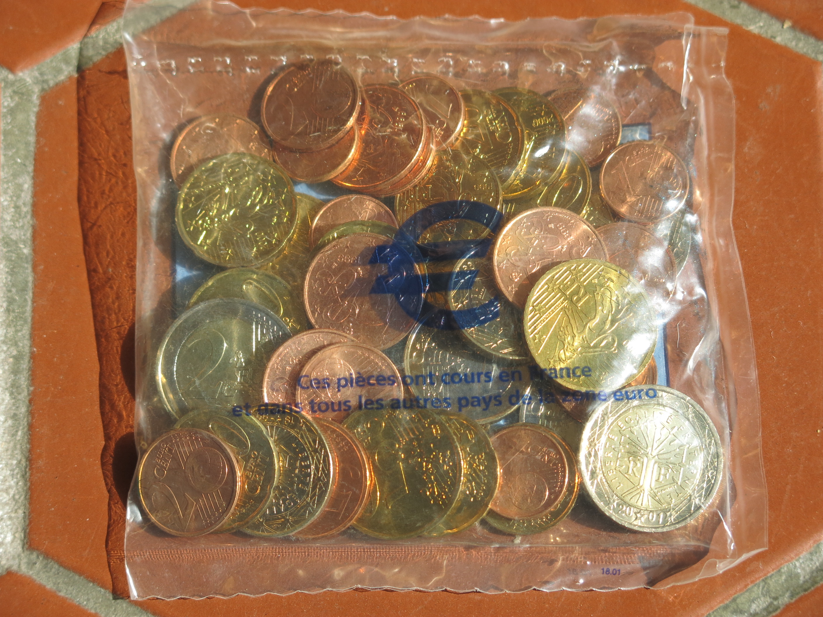 Pouch of the new coins distributed at the beginning of the euro in january 2002 (France).